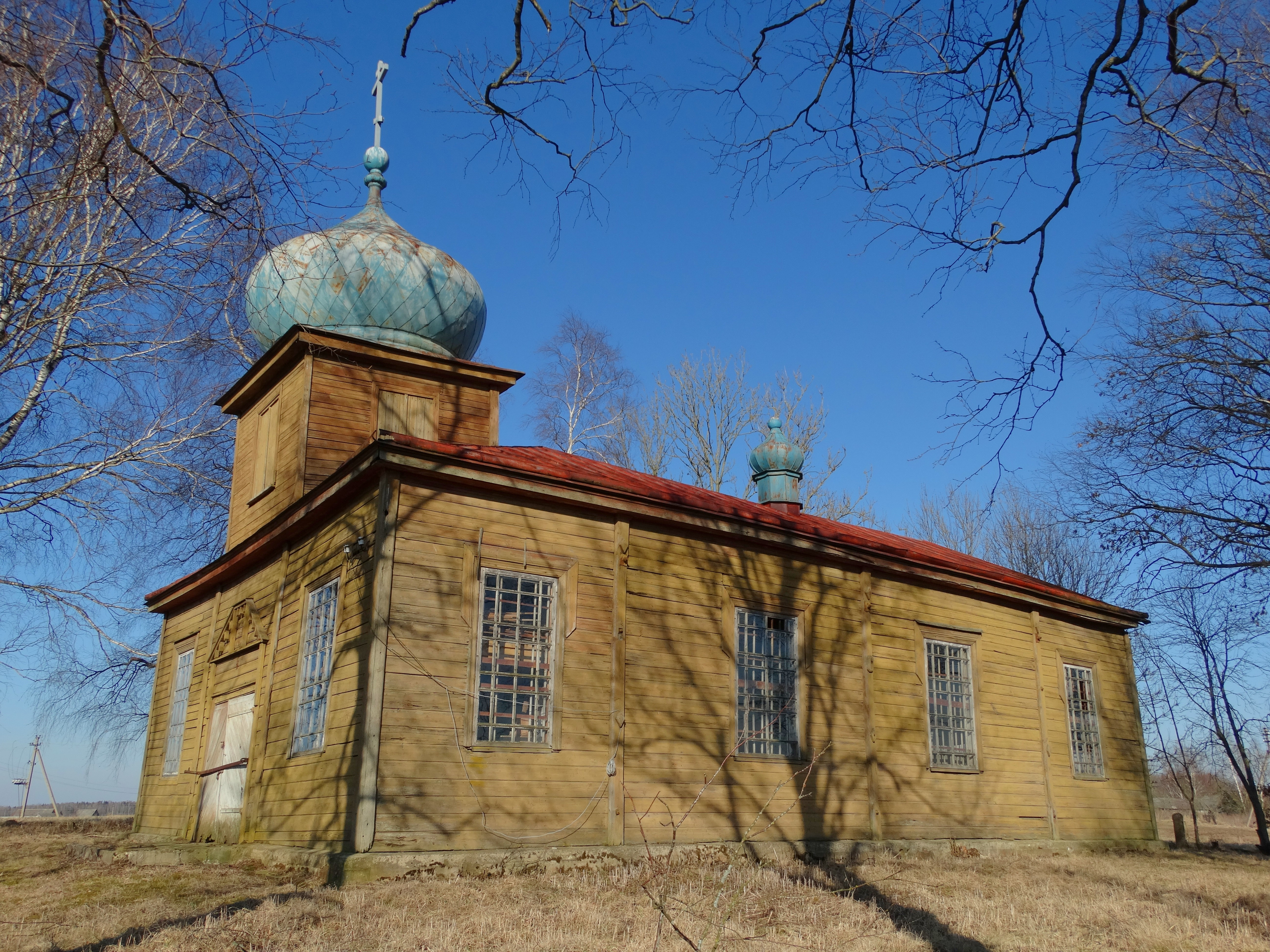 Orthodox Church of Old Believers in Sidariai, Radviliškis District, Lithuania